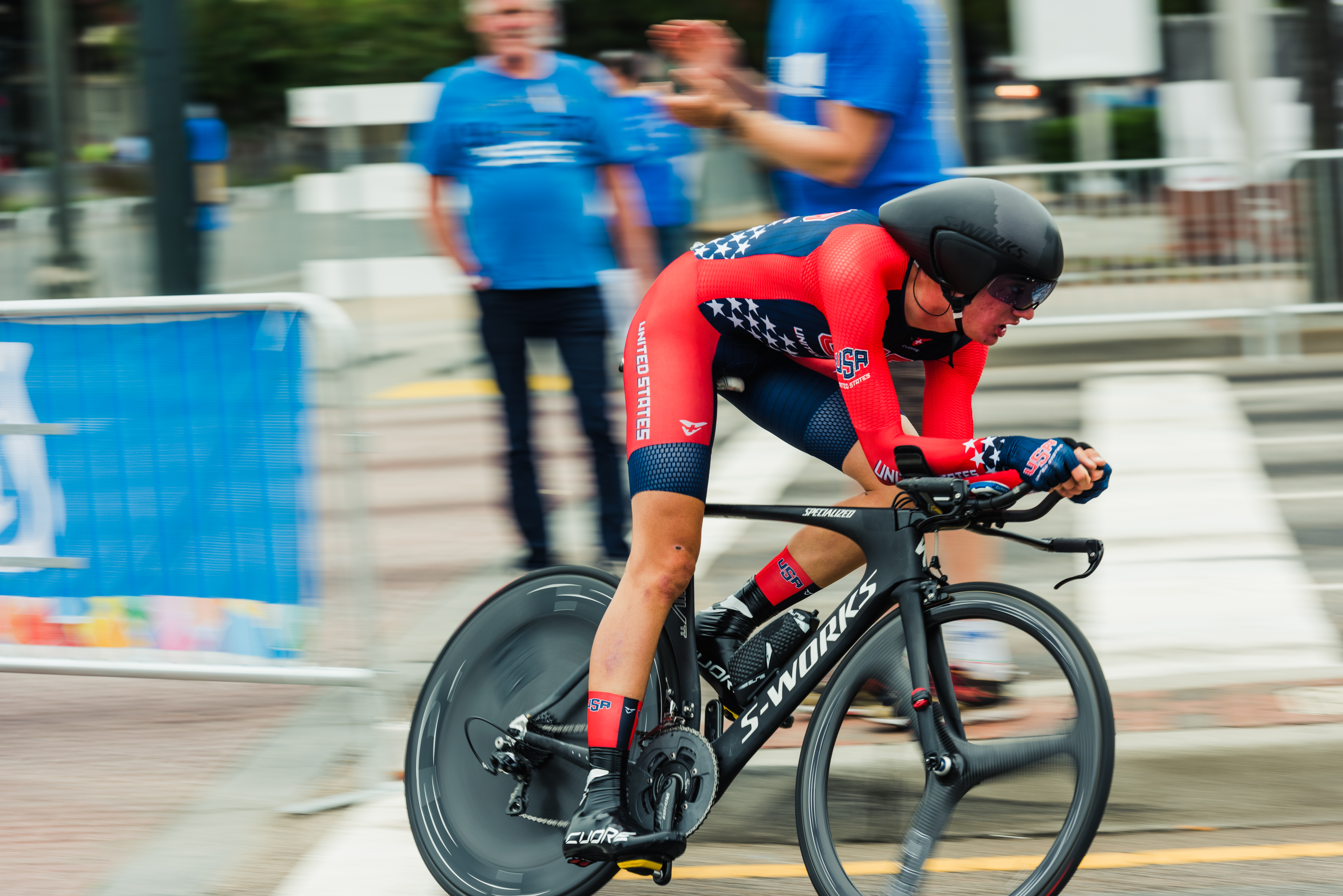 UCI Bike Race 2015 Richmond, VA 2015 UCI Road World Championships – Men's under-23 time tria in Richmond, USA